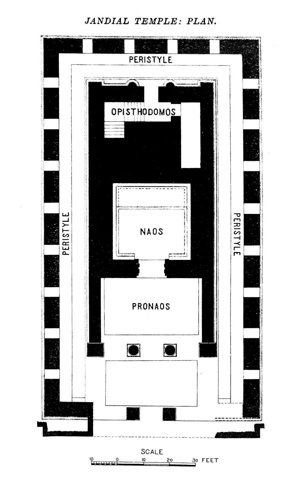 Jandial Temple Plan